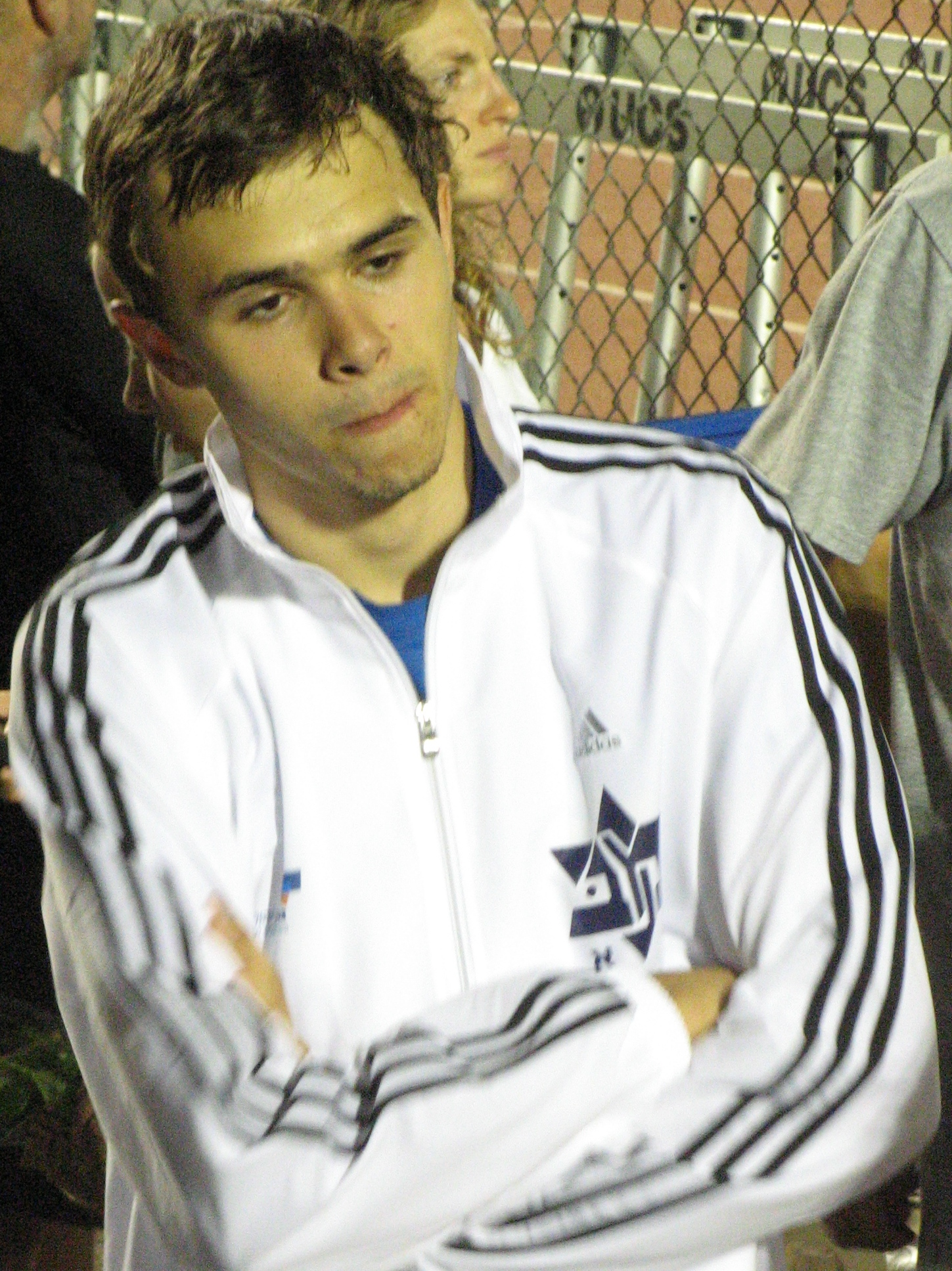 The Israeli high jumper Dmitry Kroyter during the 1st day of the Israel track and field championship 2011.